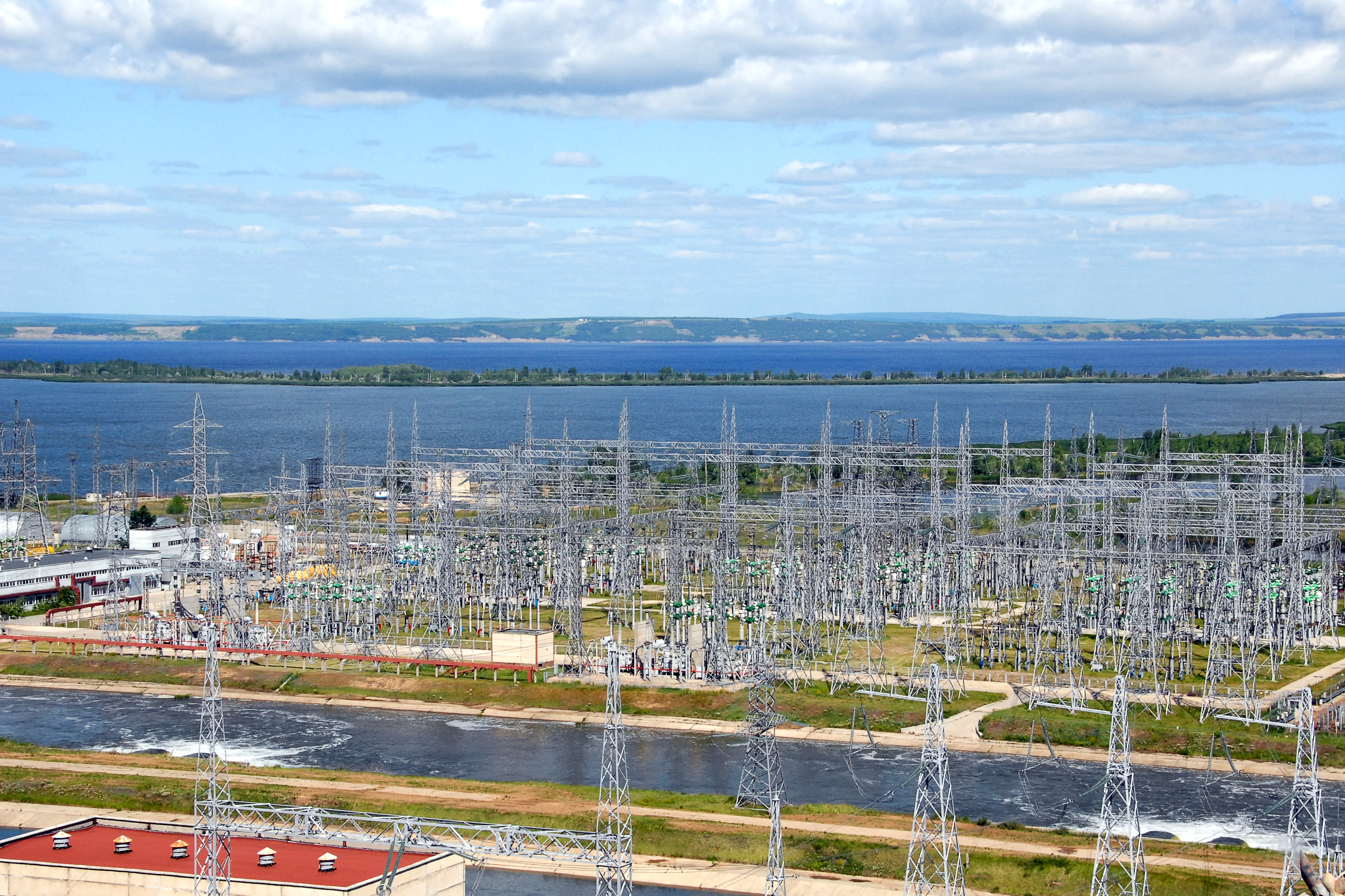 Electrical switchyard of the Balakovo Nuclear Power Plant